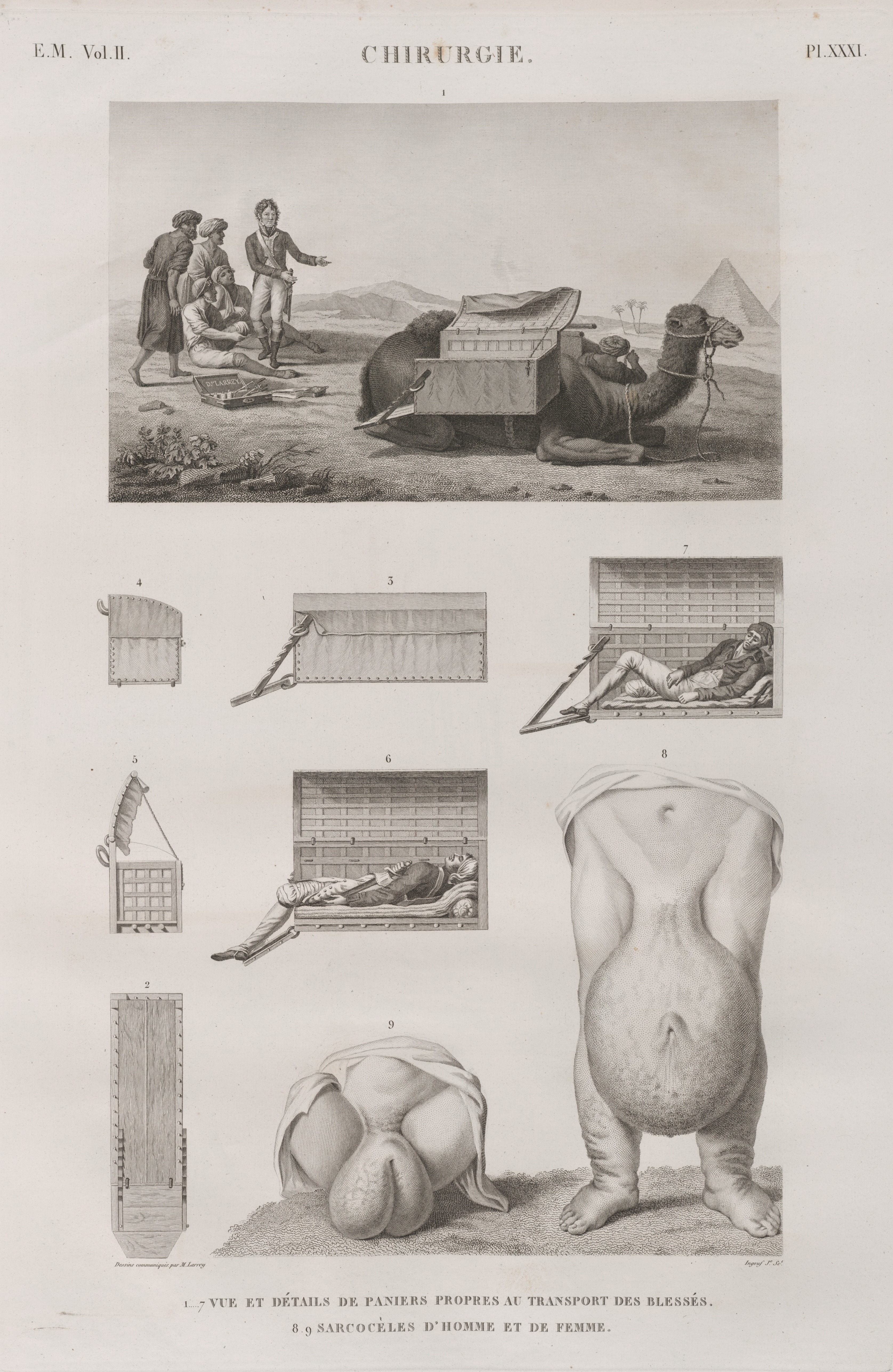 Chirurgie. 1-7. Vue et détails de paniers propres au transport des blessés; 8.9. Sarcocéles d'homme et de femme.